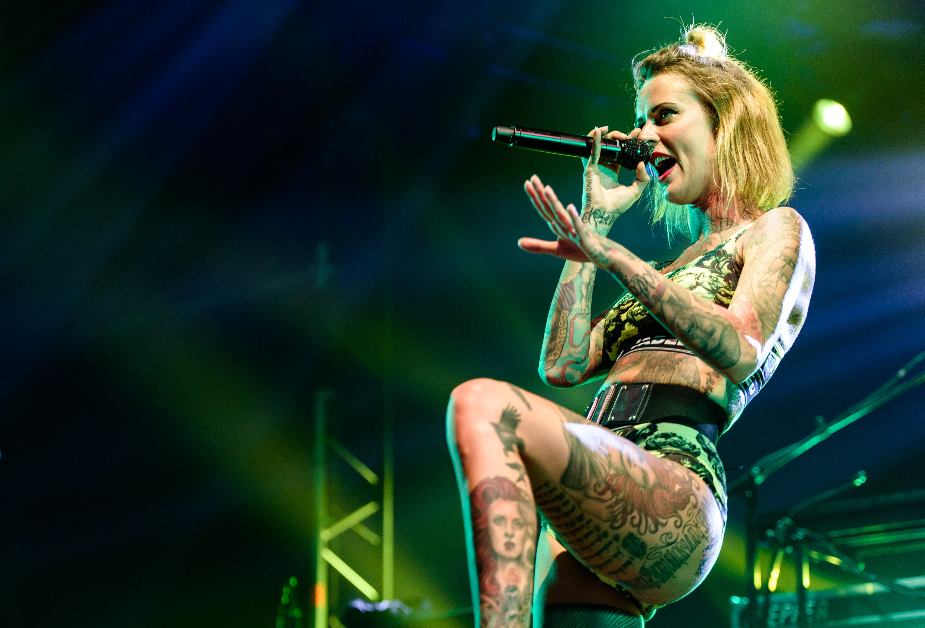 Jennifer Rockstock in Munich 2015